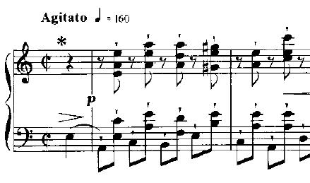 Excerpt form the beginning of the Étude Op. 25 No. 4 by Fryderyk Chopin.